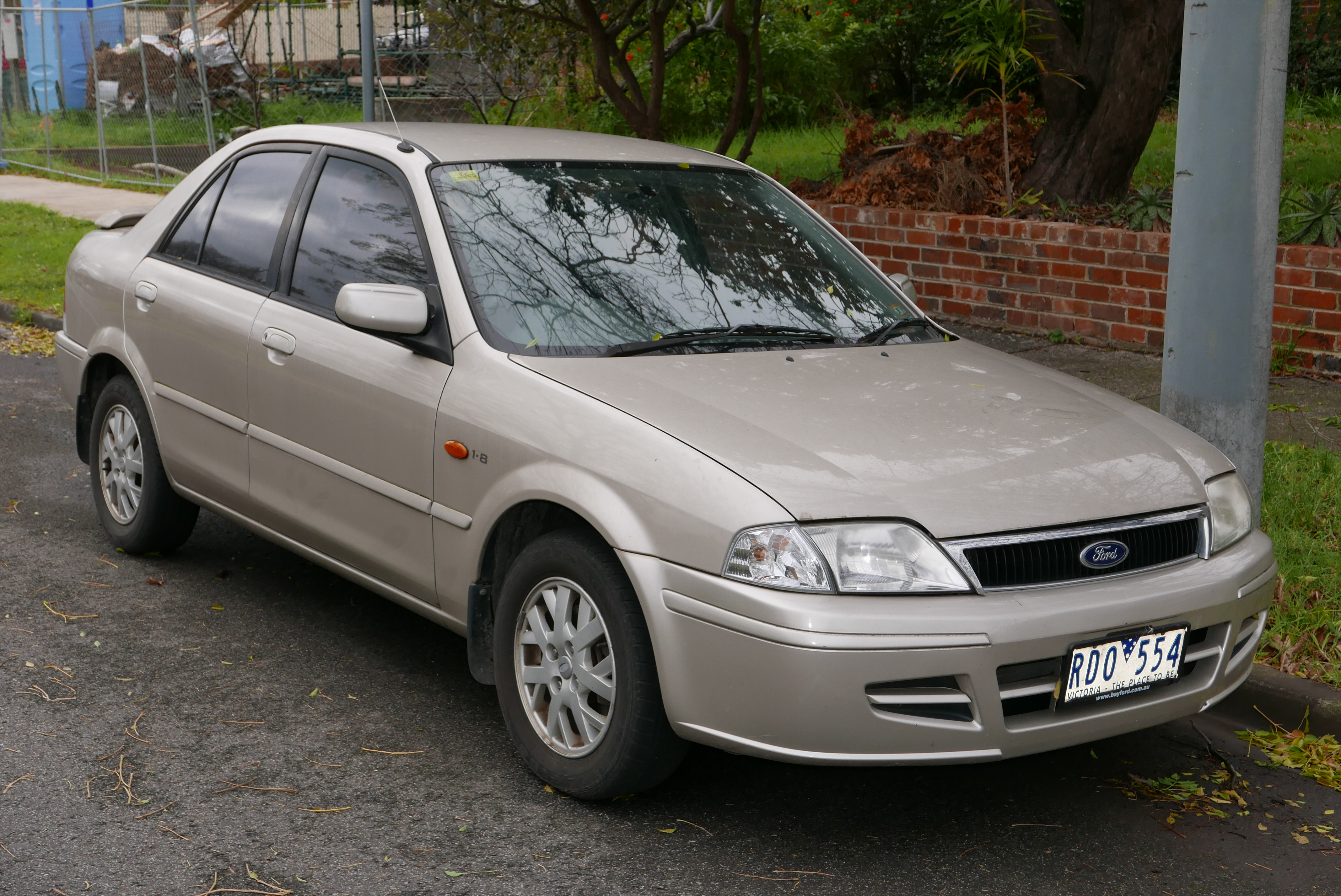 2001 Ford Laser (KQ) GLXi sedan. Photographed in Ivanhoe, Victoria, Australia. Vehicle registration enquiry resultsJurisdictionVictoriaRegistrationRDO554Chassis codeJC0AAASGNM1A51668Engine codeFP757587Compliance date2001-08Year of manufacture2001